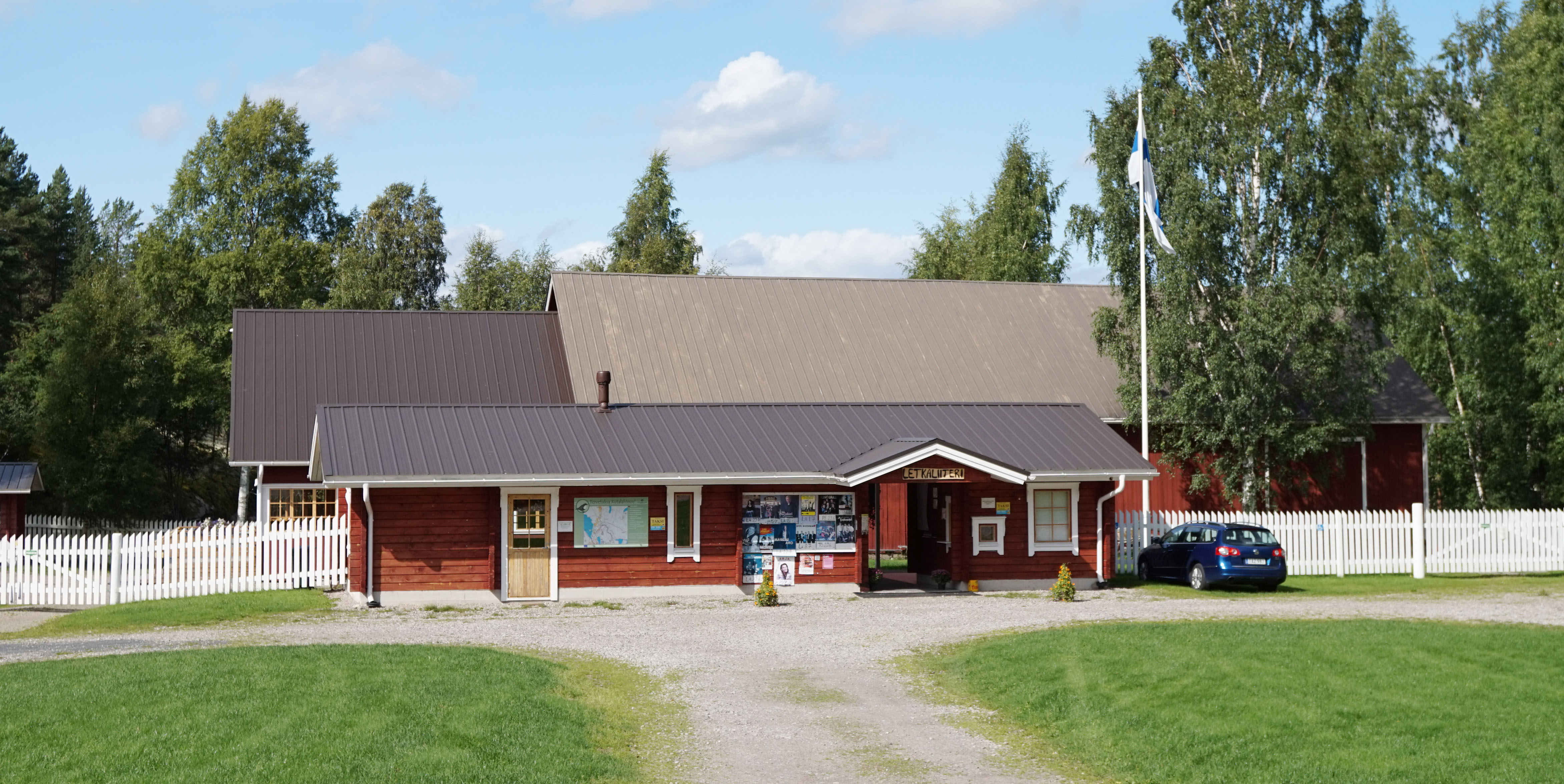 Letkaliiteri in Rutalahti, Finland.This photograph was taken with a Sony ILCE-5000